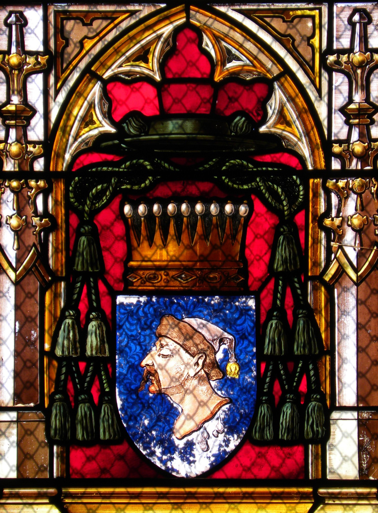 Coat of arms of Károly Emmánuel Csáky, bishop of Vác, Hungary (1900 - 1919). Spišský Štvrtok, Slovakia. Parish church, Zápoľský/Zápolya family chapel, stained-glass window.